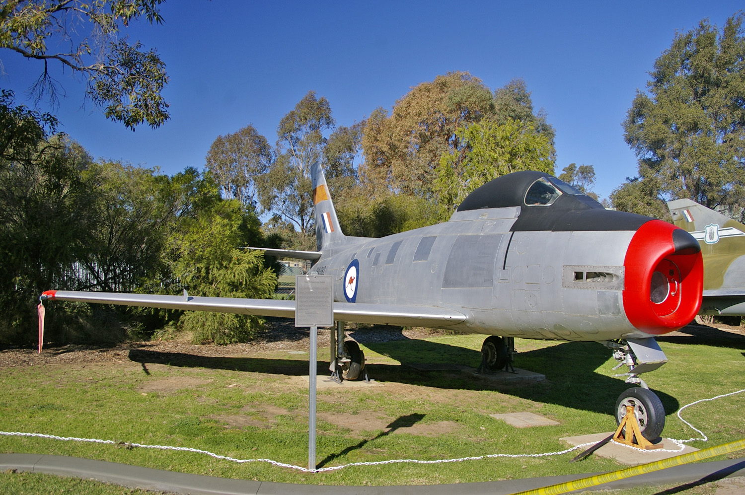 A94-982 Mk.32 CAC Sabre (Construction number: CA27-82) on display at RAAF Base Wagga.